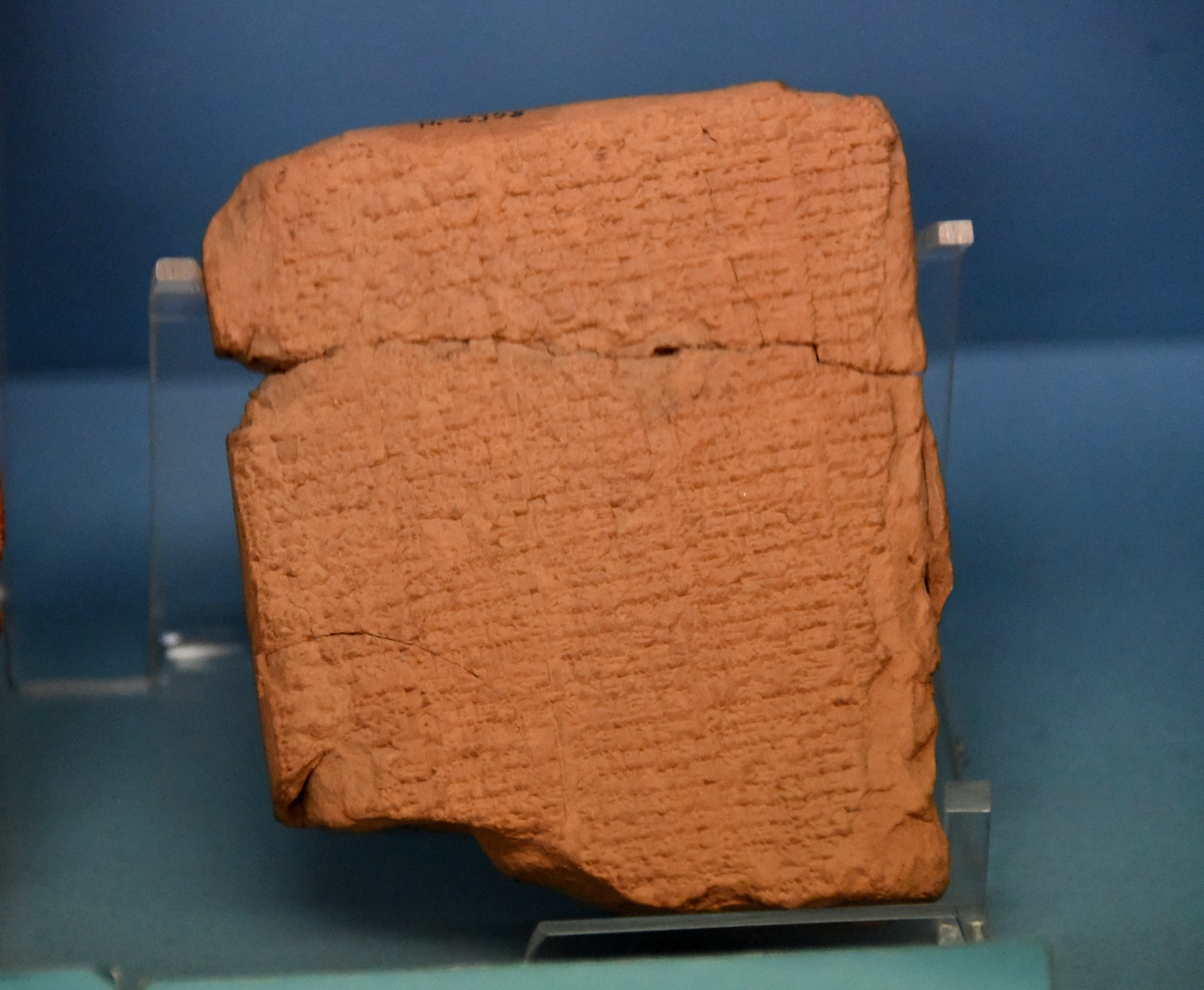 Law code of Hammurabi, a smaller version of the original law code stele. Terracotta tablet, from Nippur, Iraq, c. 1790 BCE. Ancient Orient Museum, Istanbul.